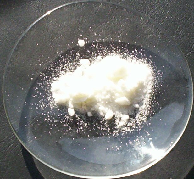 A sample of sodium nitrite. Picture taken by User:Walkerma, March 2006.